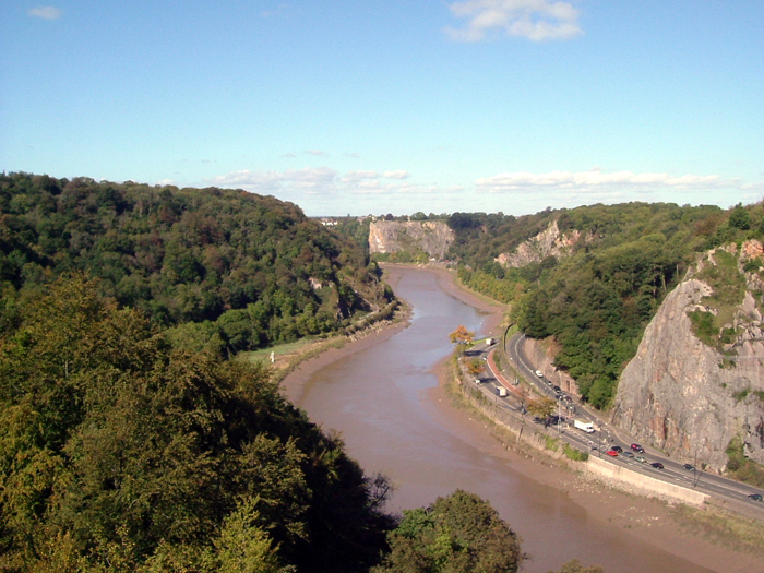 Avon Gorge, looking north from the Clifton Suspension Bridge. Bristol, England.